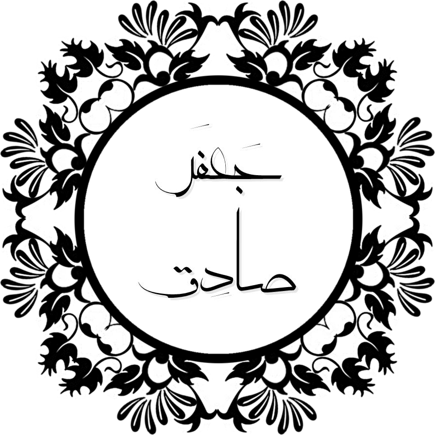 Jafar sadegh